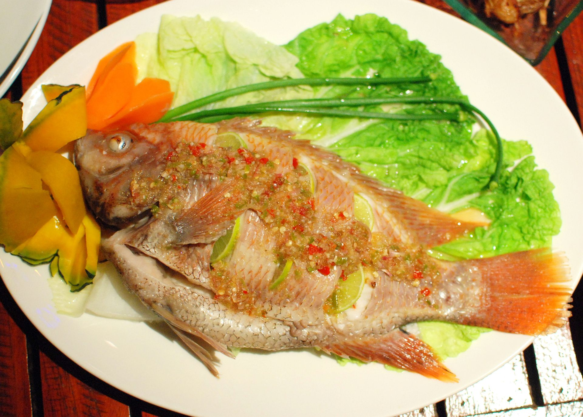 Pla nueng manao (Thai: ปลานึ่งมะนาว): Fish steamed with lime juice. The fish is pla thapthim (Thai: ปลาทับทิม, Oreochromis niloticus, Nile Tilapia) so this dish would in full be called pla thapthim nueng manao. Most recipes call for the fish to be steamed plain and then smothered in a dressing of chopped garlic, chillies, lime juice, fish sauce, fresh coriander and a bit of chicken stock. This fish, though, was steamed with slices of lime already inserted.